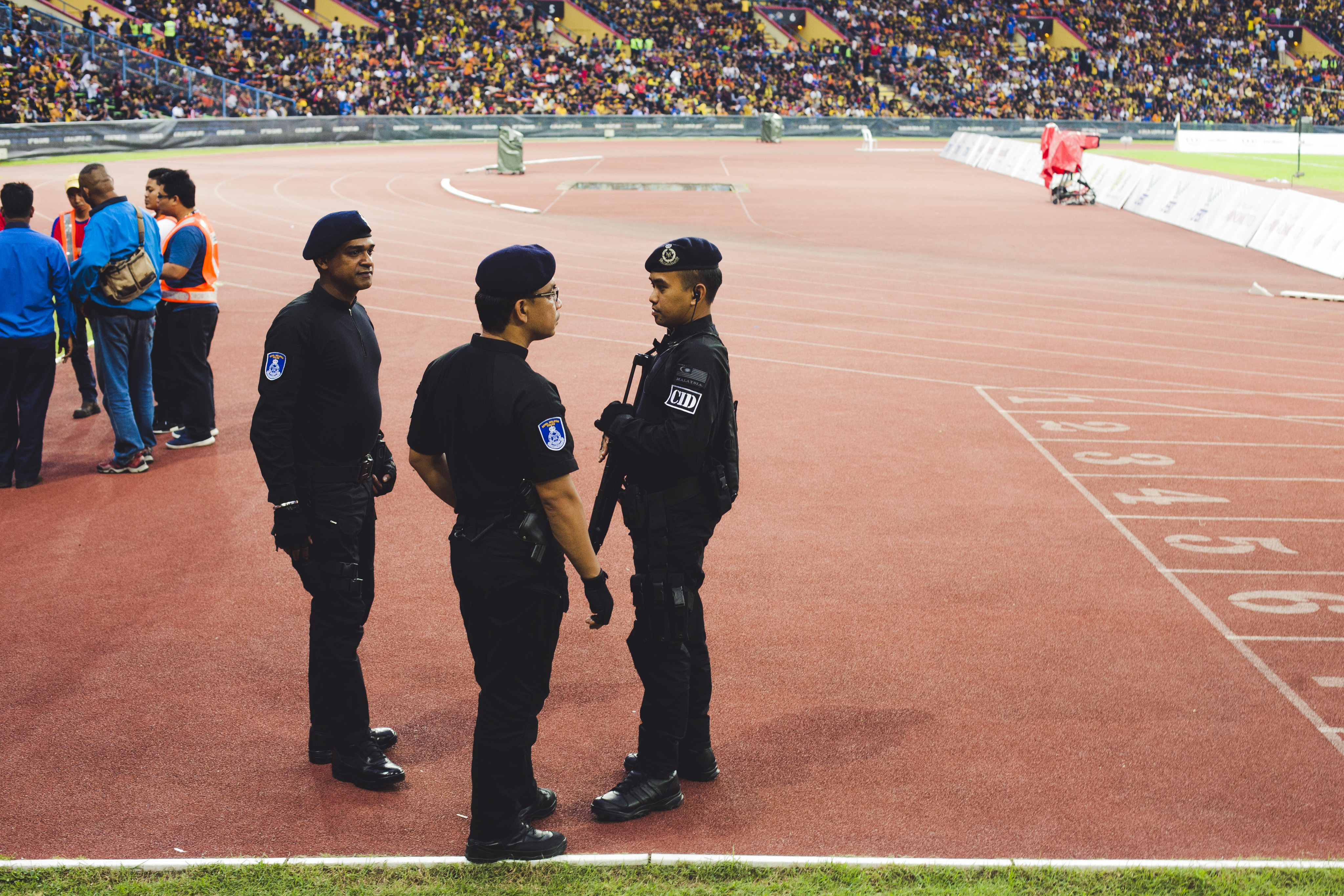 Officers from the Royal Malaysian Police's Criminal Investigation Division ensuring security at the 2017 Southeast Asian Games men's football final.